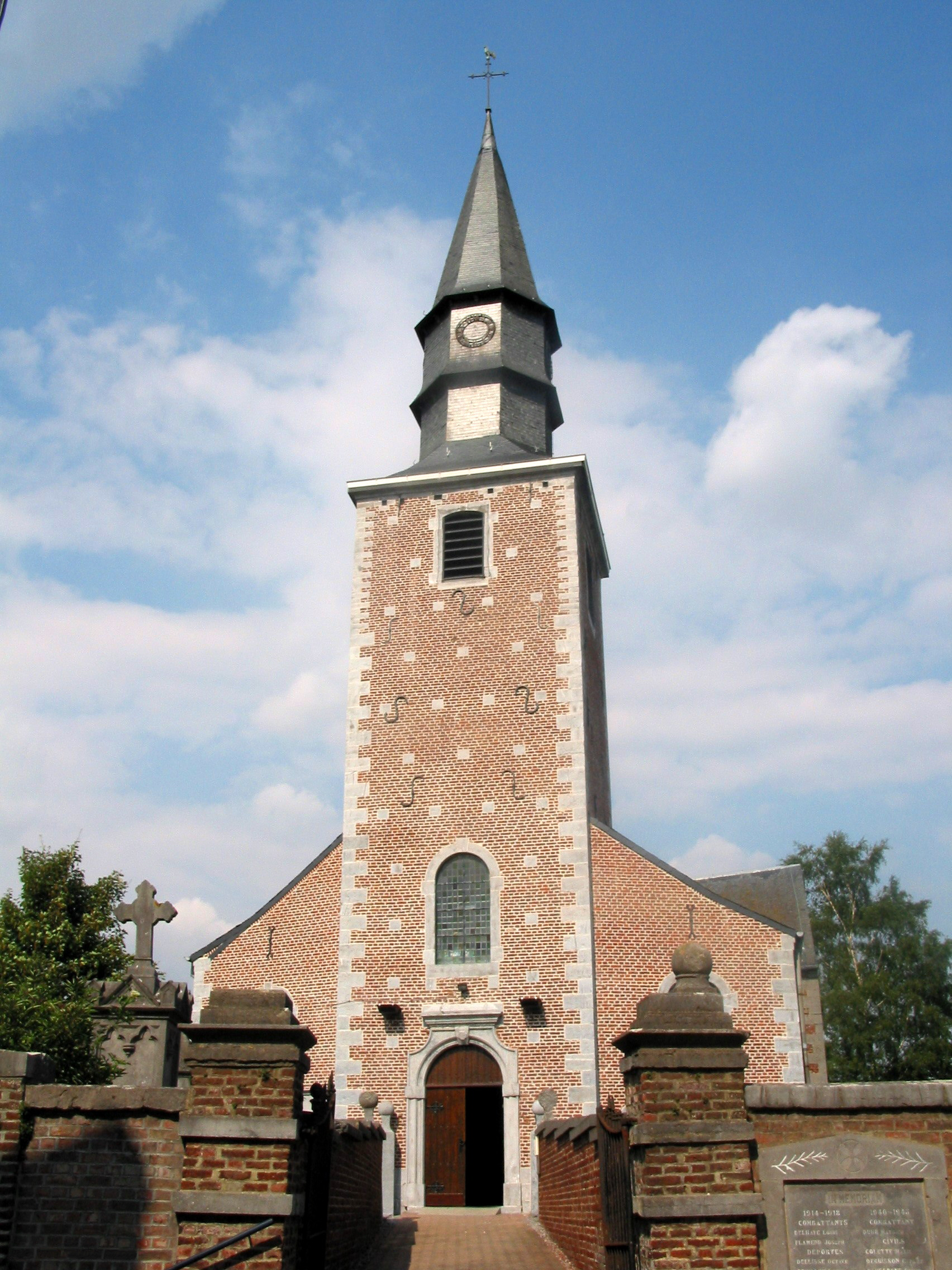 Éghezée (Belgium), the Saint Hubertus' church (XVII - XXth centuries).